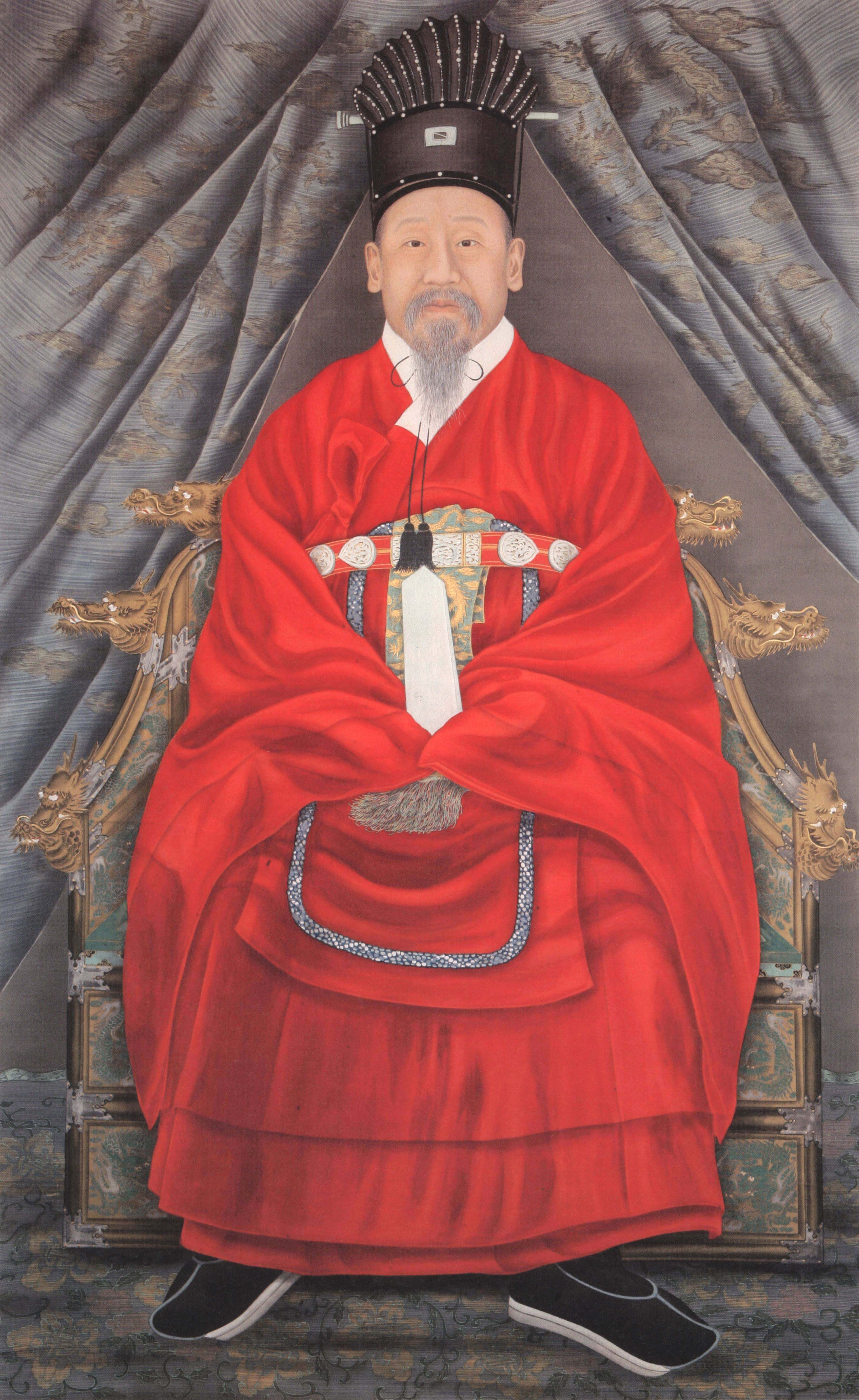 Portrait of Emperor Gojong of Korea (1852-1919), Yi Myeong-bok, wearing Tongcheonggwan and Gangsapo